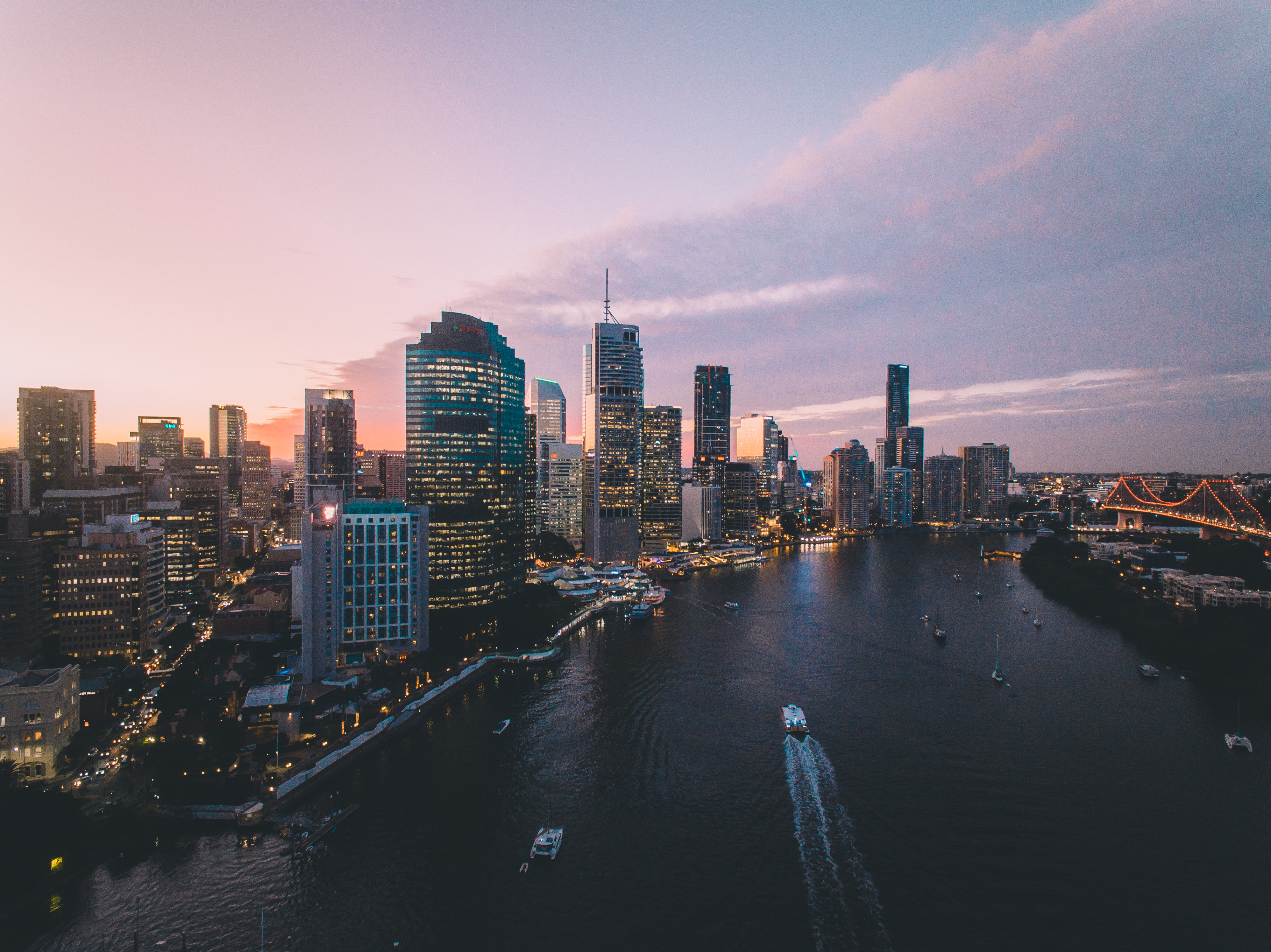 Brisbane's skyline, as seen above the Brisbane River near Kangaroo Point, August 2018.